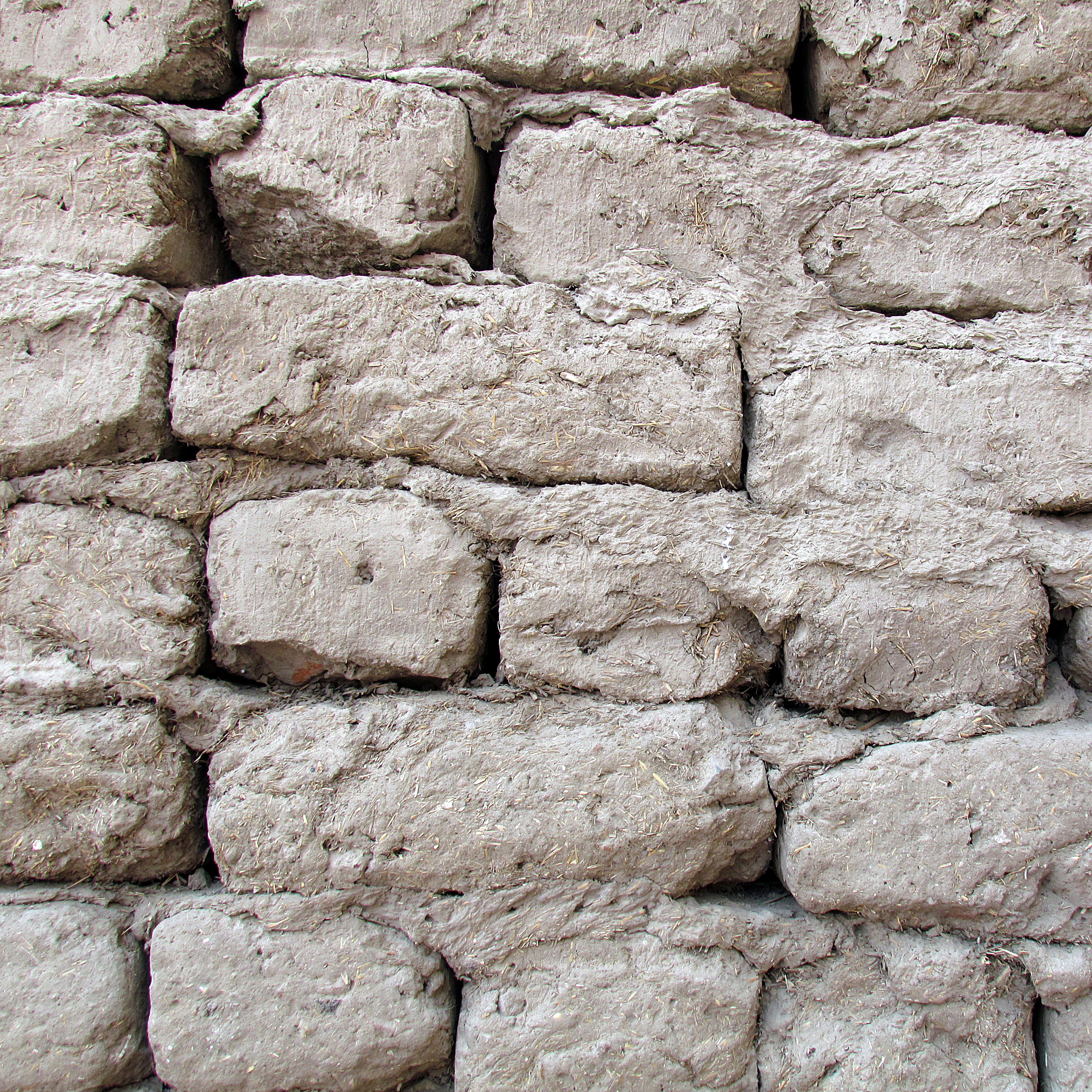 Ancient Egyptians adobes